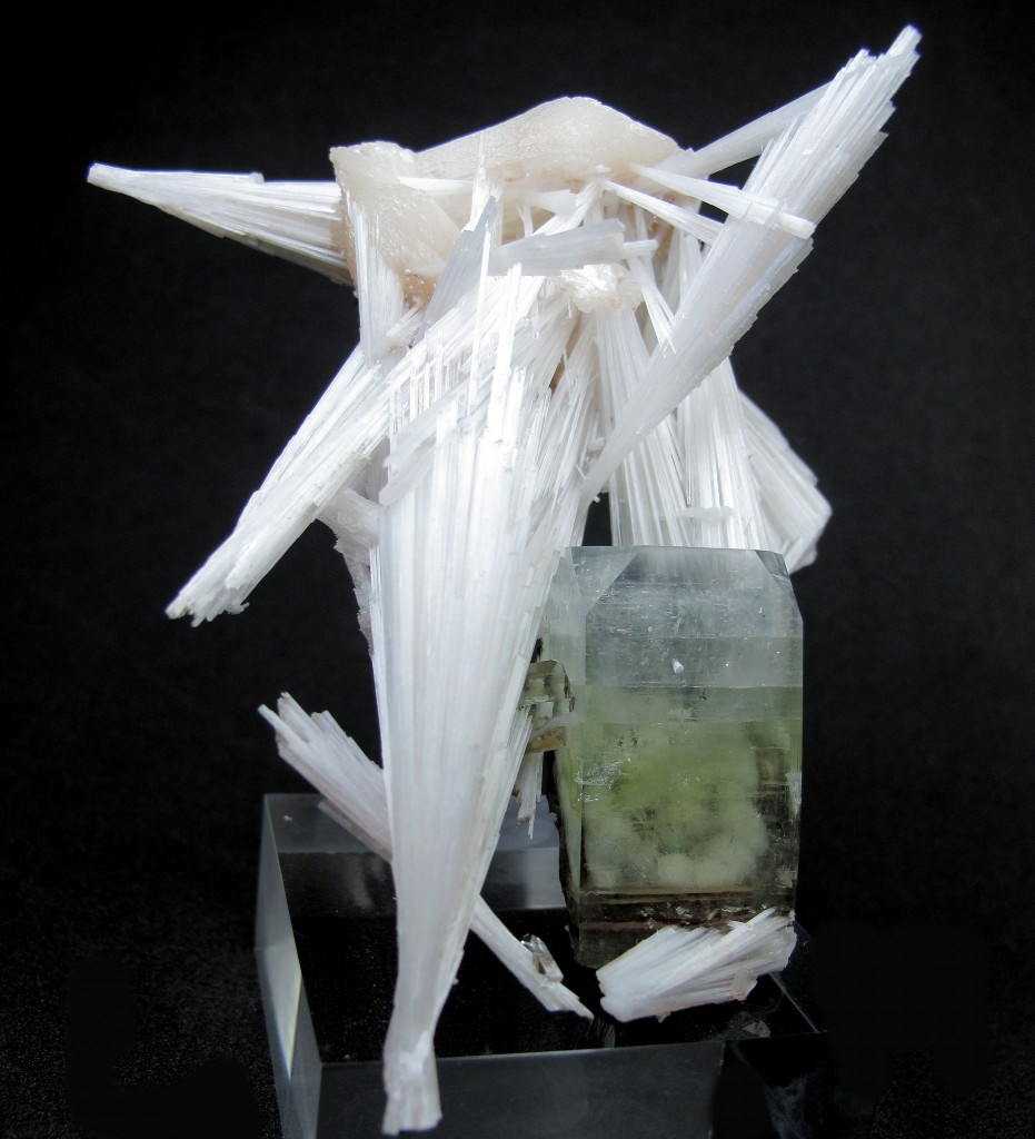 Scolecite, Apophyllite, Stilbite Locality: Ahmadnagar District (Ahmednagar District; Ahmed Nagar District), Maharashtra, India Original description: Acicular colorless scolecite crystals in a group with pale green apophyllite and very light pink stilbite. The apophyllite crystal includes other scolecite crystals with a habit somewhat spherical radiated, as seen in the photos. Overall size: 90 mm x 84 mm. Apophyllite crystal size: 36 mm high, 20 mm wide. Weight: 71 g